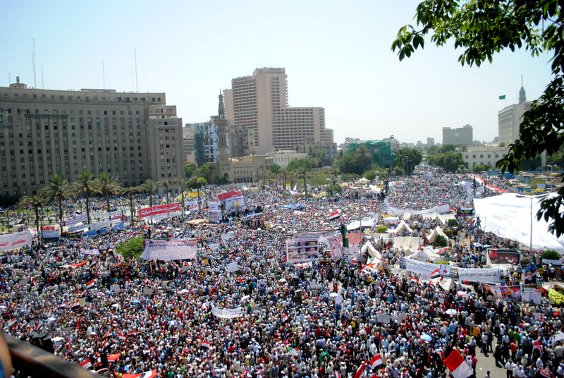 Tahrir Square, July 8th 2011